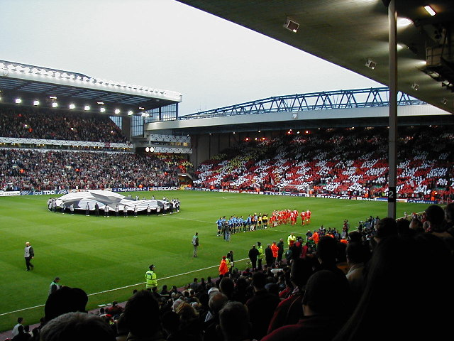 Anfield Football Stadium. BAYER LEVERKUSEN were the Visitors